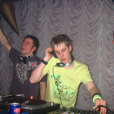 gammer